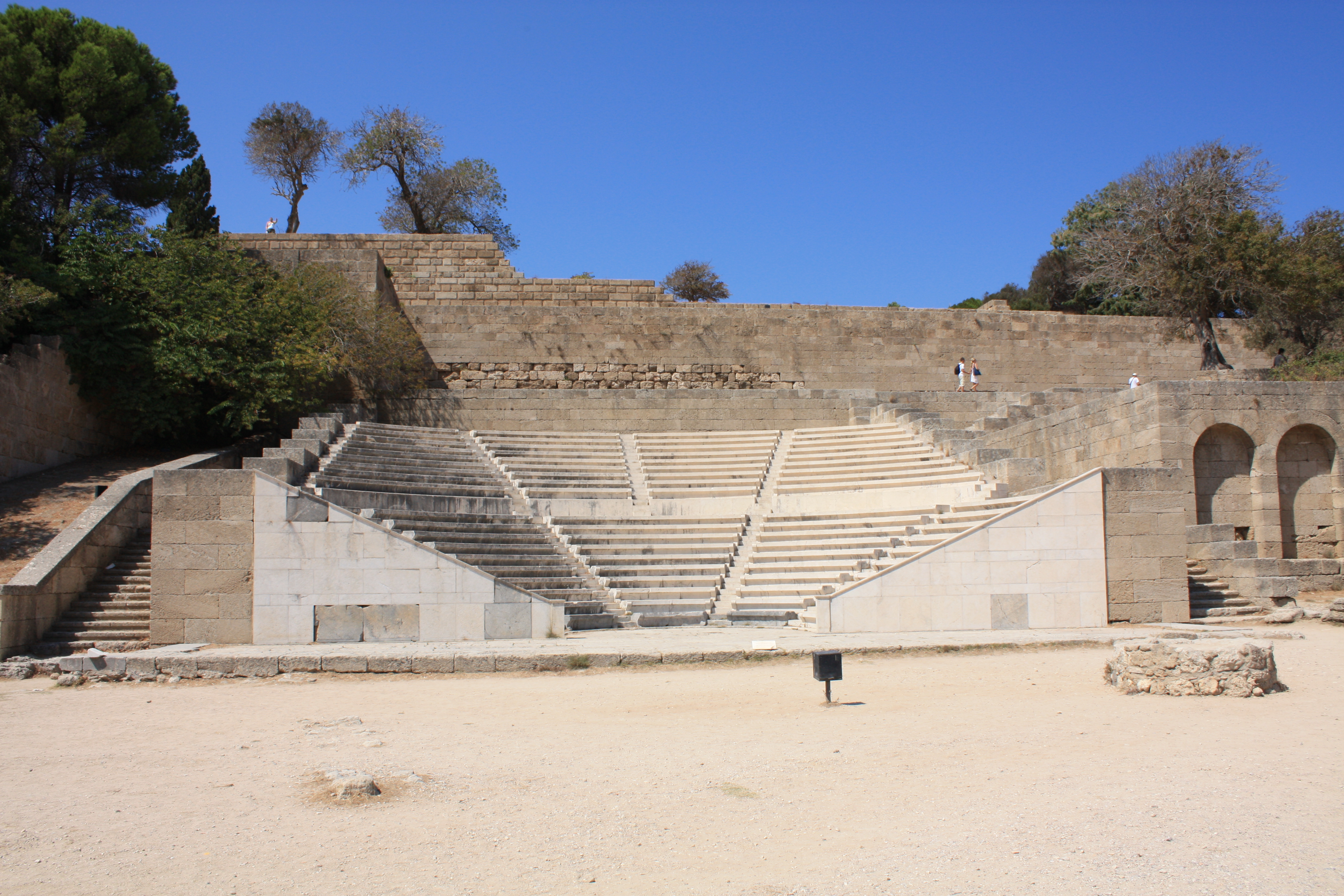 Odeion (theatre) in Acropolis of Rhodes, Greece.